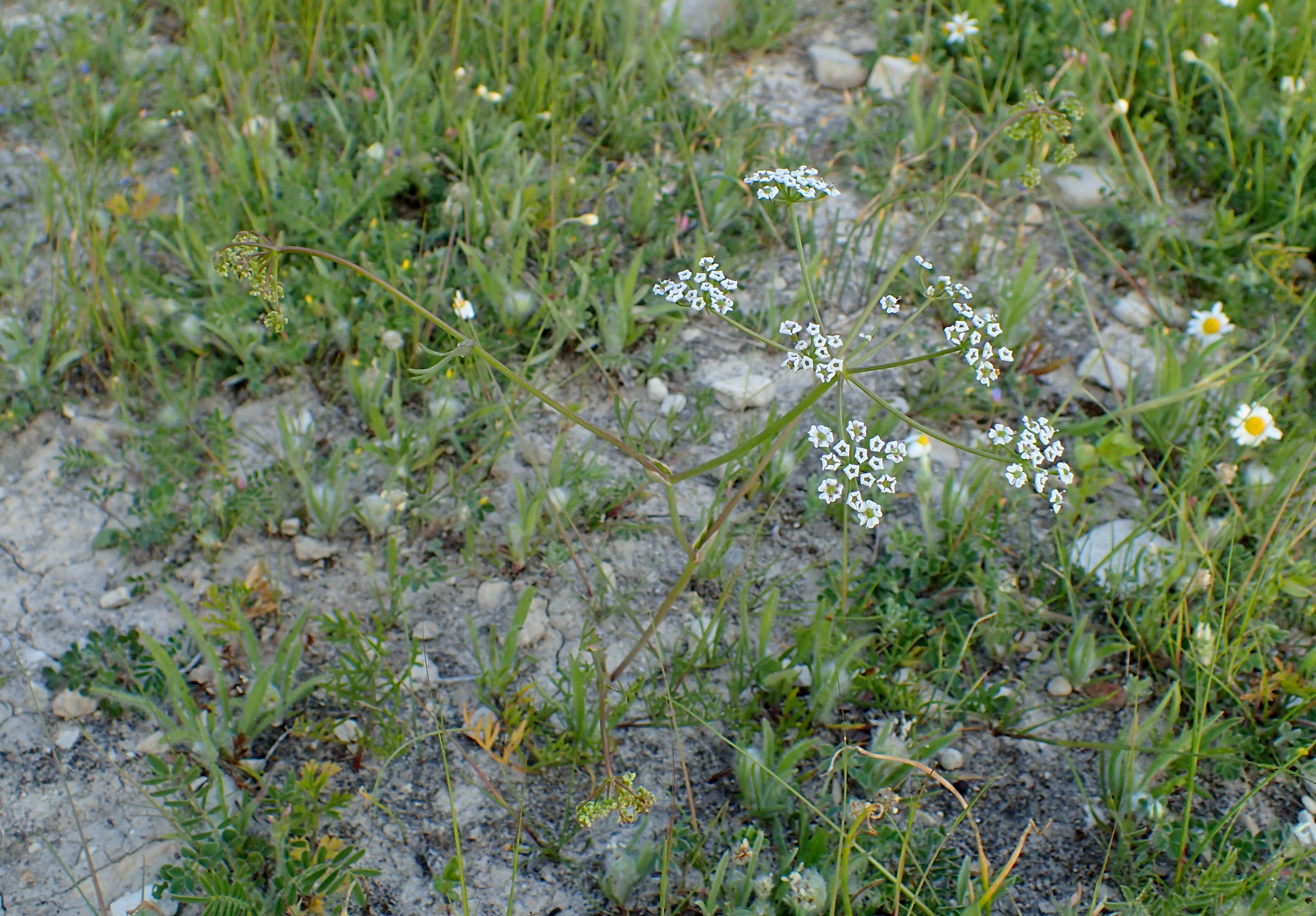 Bunium ferulaceum in Pissouri, Cyprus